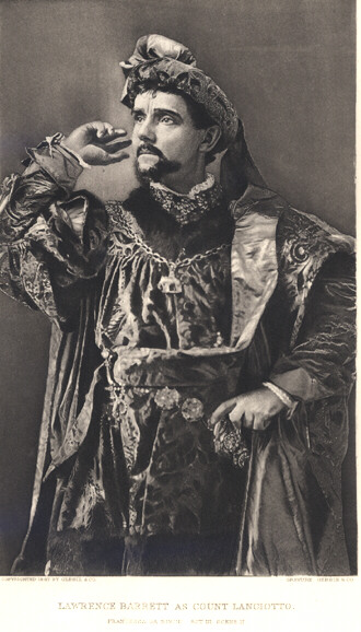 Philip H. Ward Collection of Theatrical Images, 1856-1910. As Count Lanciotto in Francesca da Rimini.